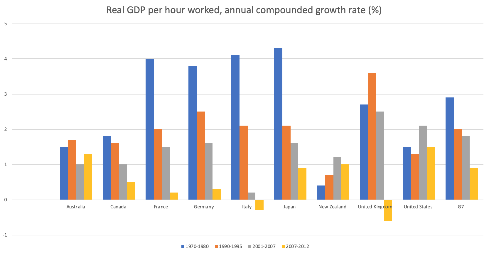 This graph illustrates the global wage growth of pre-GFC, GFC and post-GFC demonstrating the significant decline in wage growth after the GFC in most of the advanced countries.